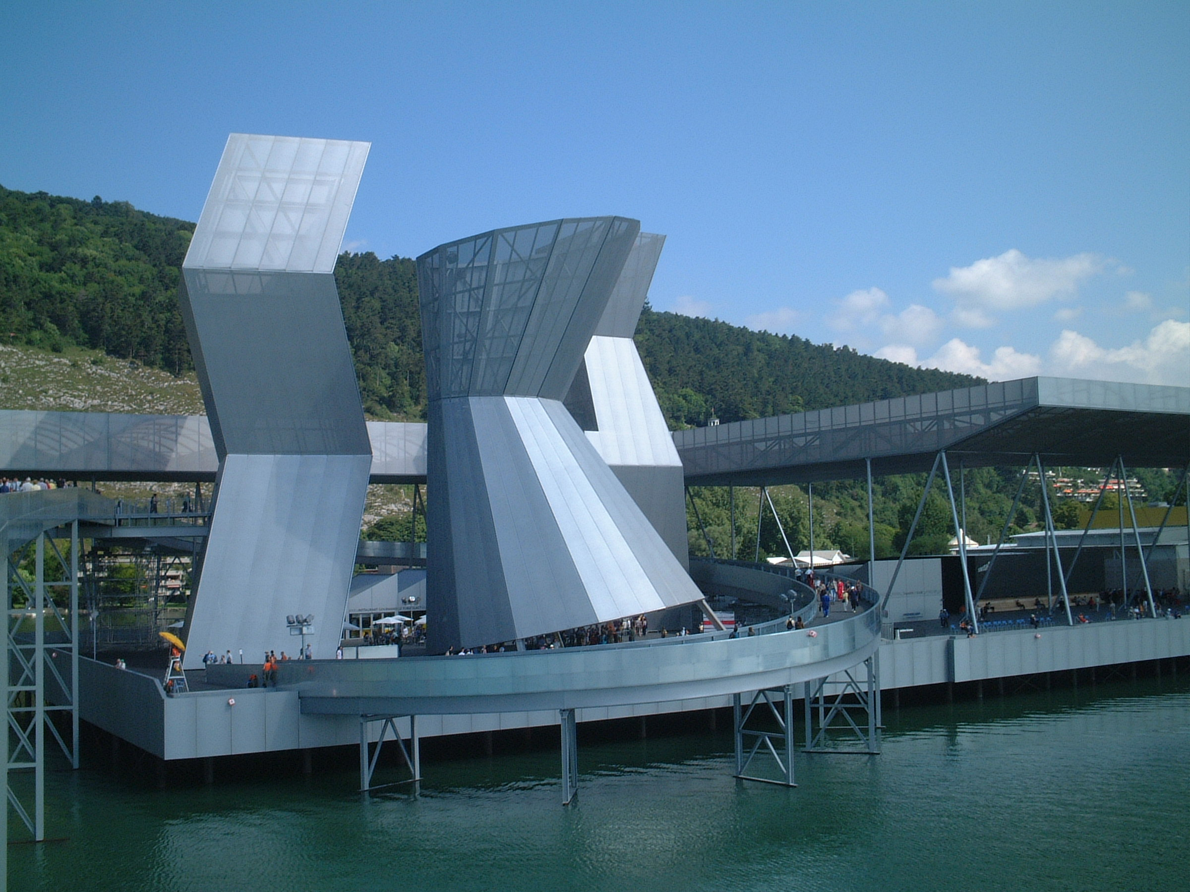 Expo.02 in Neuenburg, Yverdon, Biel and Murten (exact location see file name)